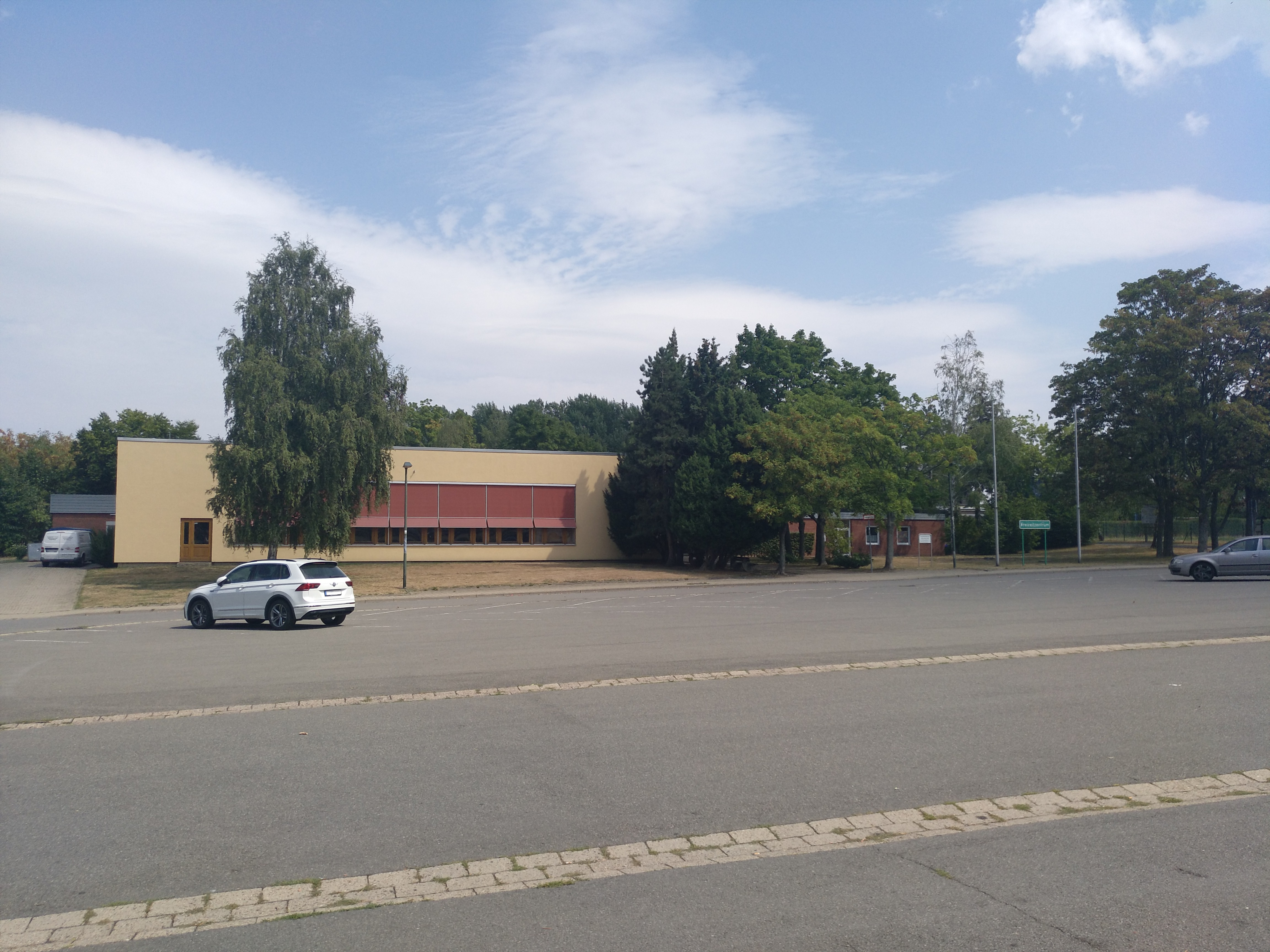 Farther view at the Harlingerode recreation center.